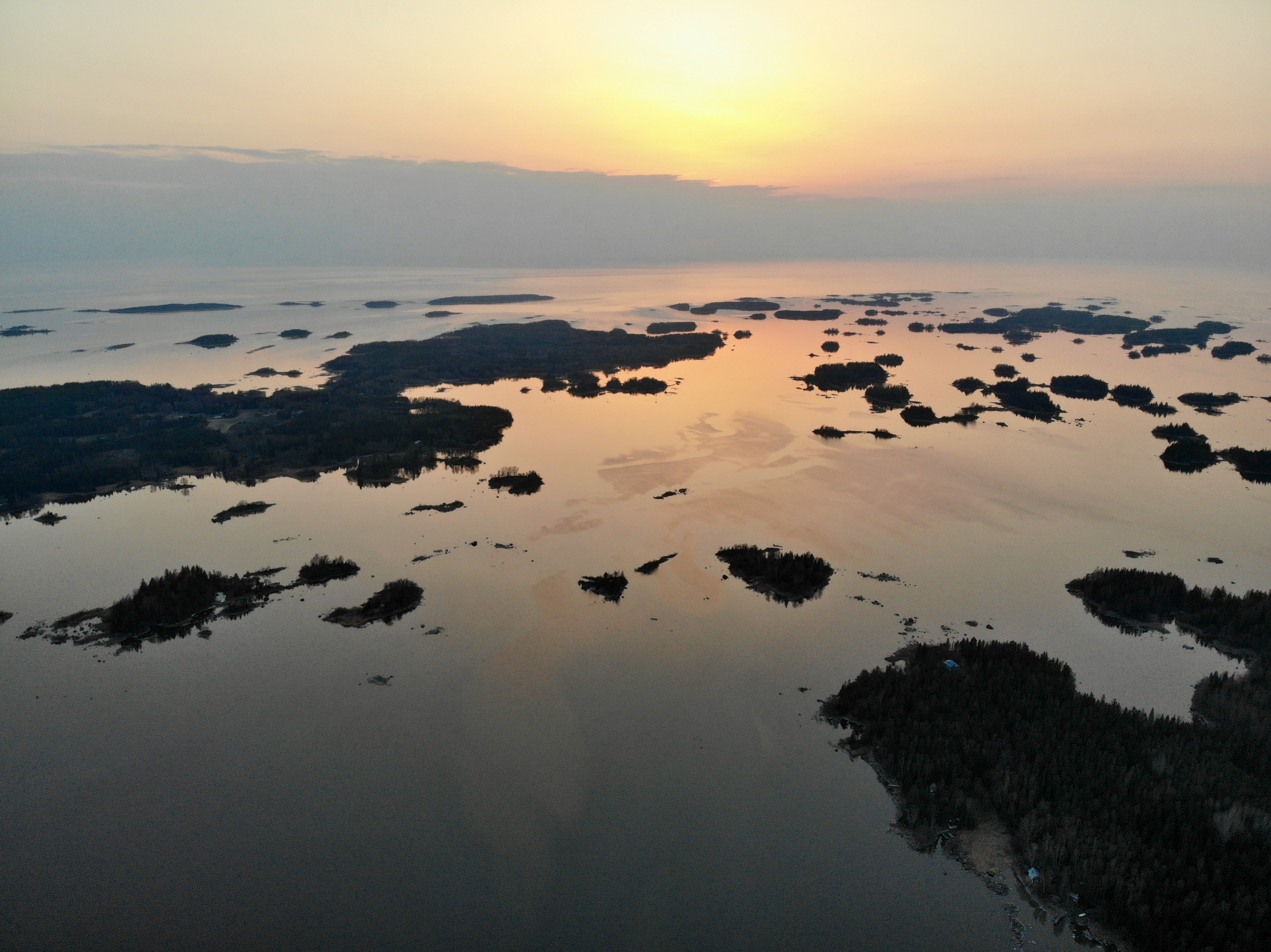 Aerial photograph of Pori archipelago.